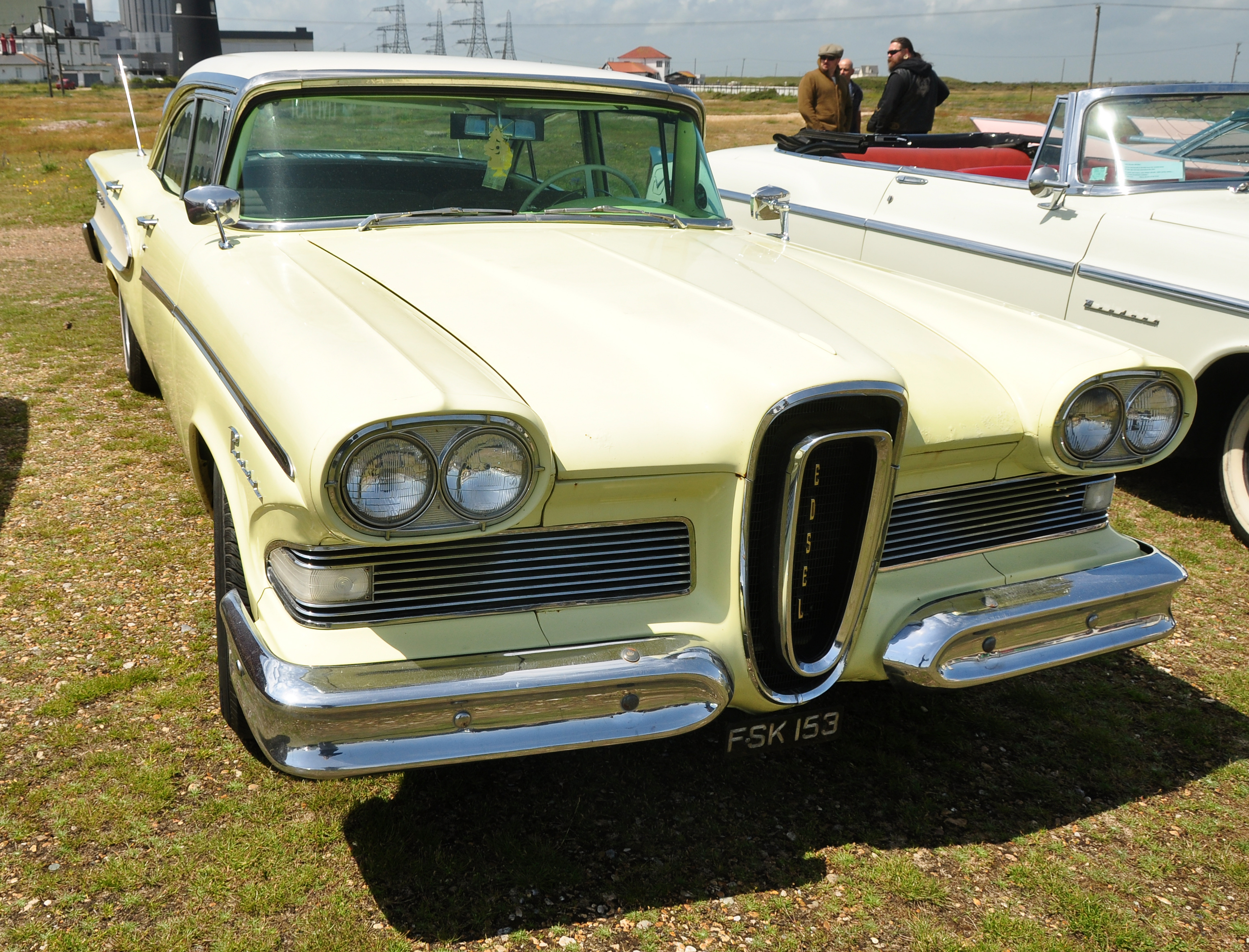 An Edsel Pacer at Dungeness, Kent.